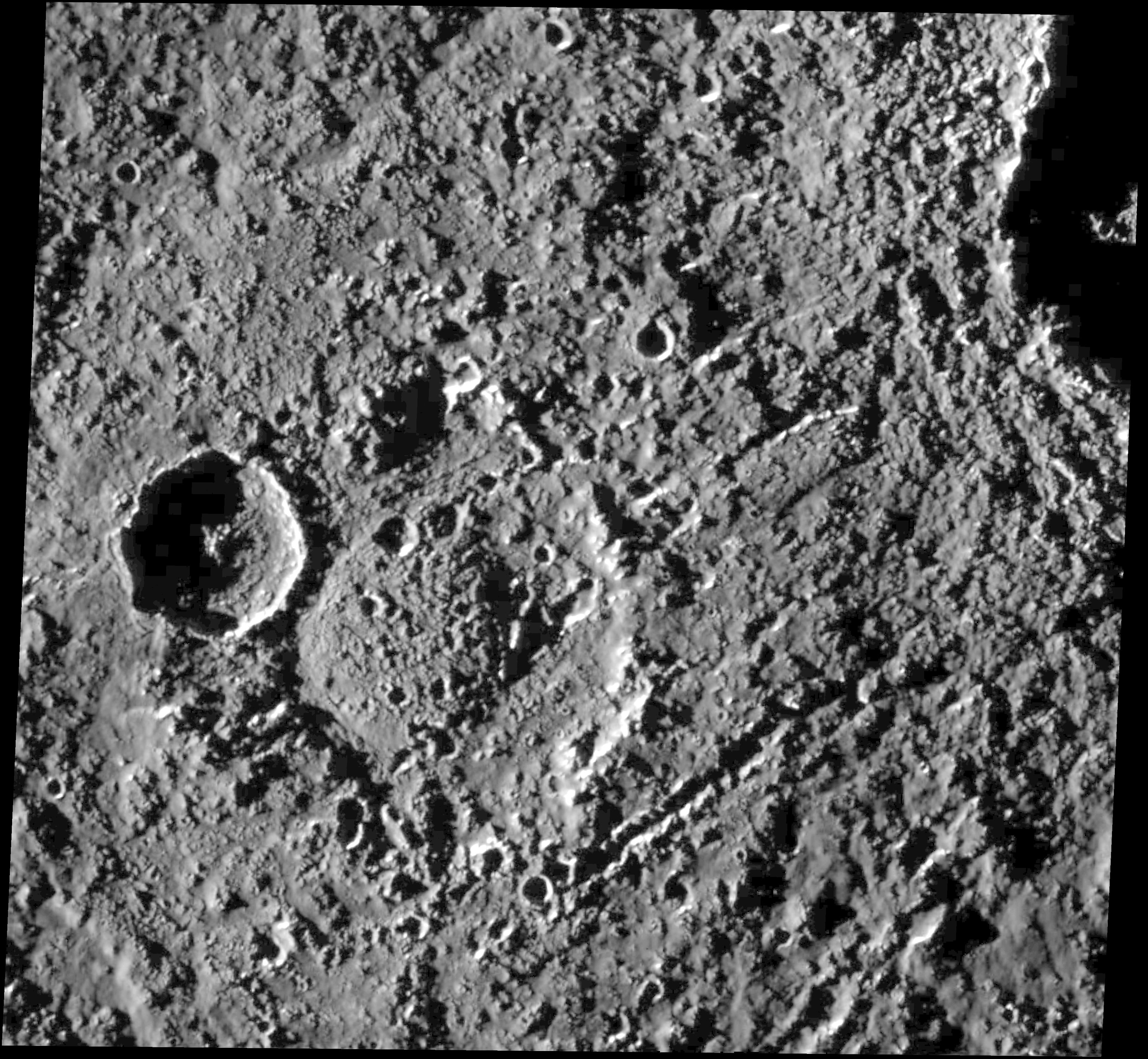 Hár crater on Callisto, photographed by Galileo.